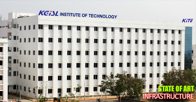 This is view of kite college located in Saravanampatti,Coimbatore,Tamil Nadu ,India.